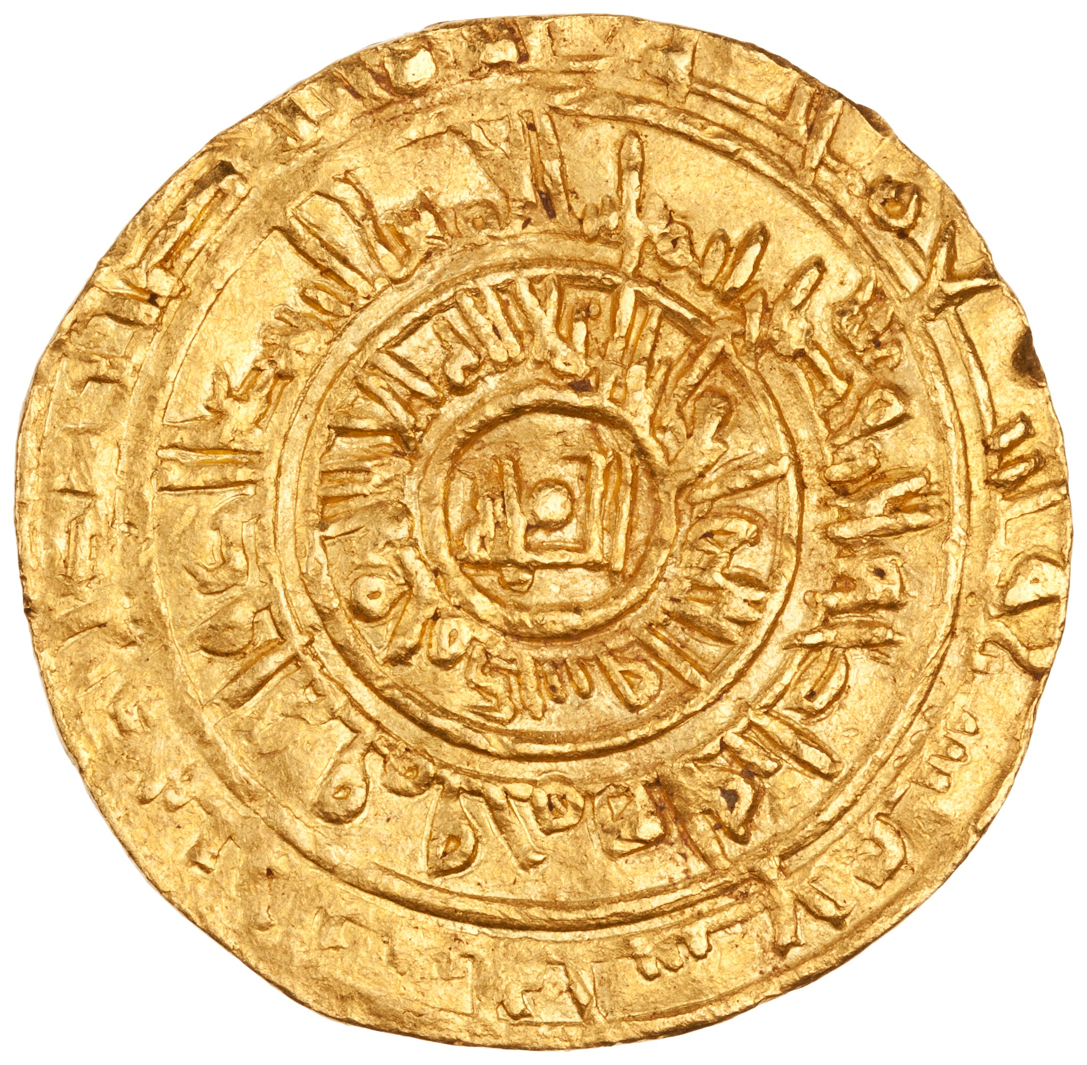 A gold dinar coin minted in Aleppo in 1028/29 under the authority of the Mirdasid emir Salih ibn Mirdas and Fatimid caliph az-Zahir. The coin acknowledges Thimal as Salih’s chosen successor as Emir of Aleppo